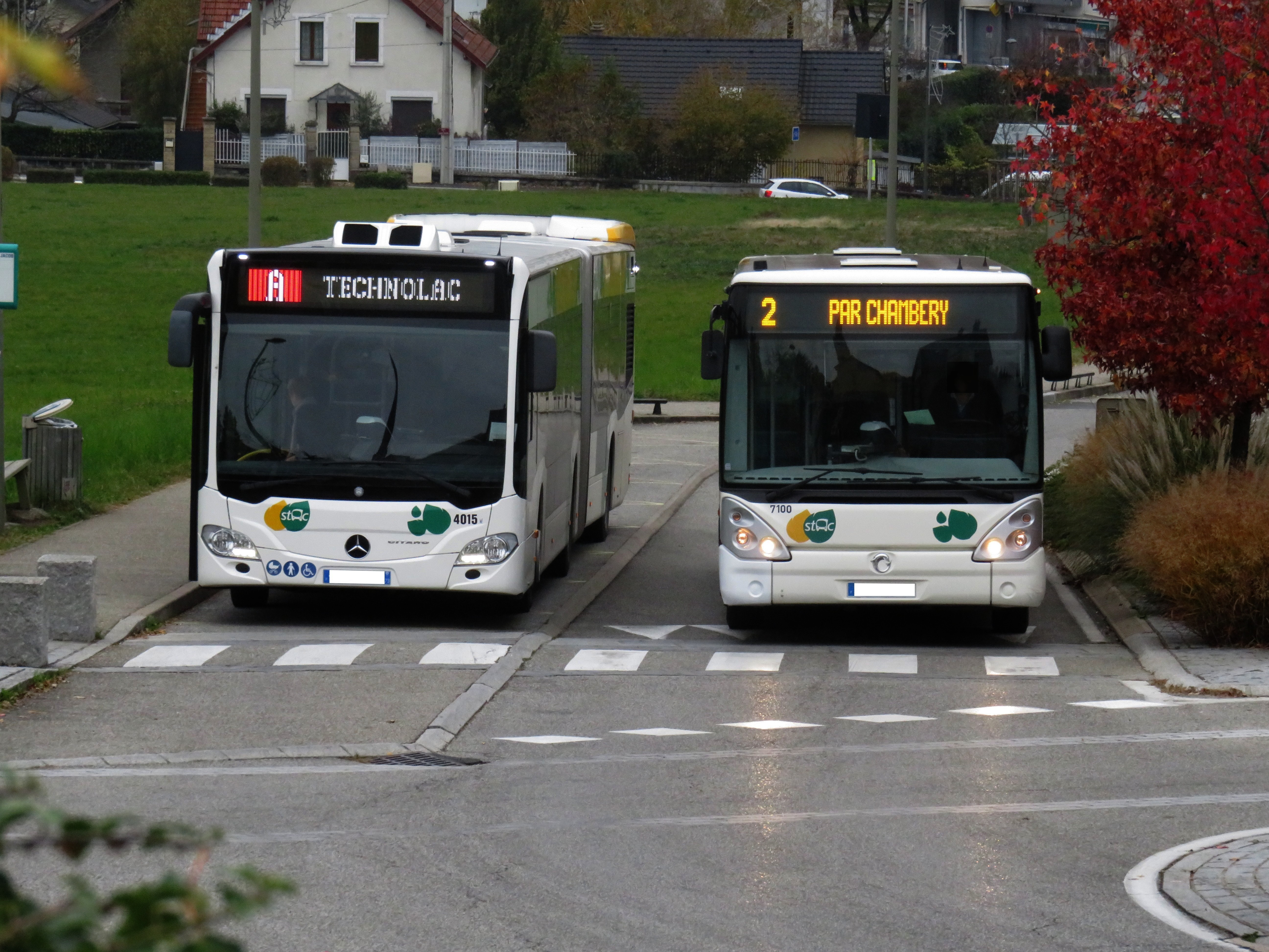 A Mercedes-Benz Citaro G C2 (n°4015 of the French agglomeration community Grand Chambéry) running on Stac’s line Chrono A — Université Jacob, Jacob-Bellecombette↔INSEEC, Le Bourget-du-Lac — and an Irisbus Citelis 12 (n°7100 of Transavoie) running on Stac’s line 2 — Salins, Chambéry↔Cévennes, Chambéry — at the call Université Jacob (Jacob-Bellecombette, France) on November 7, 2017.